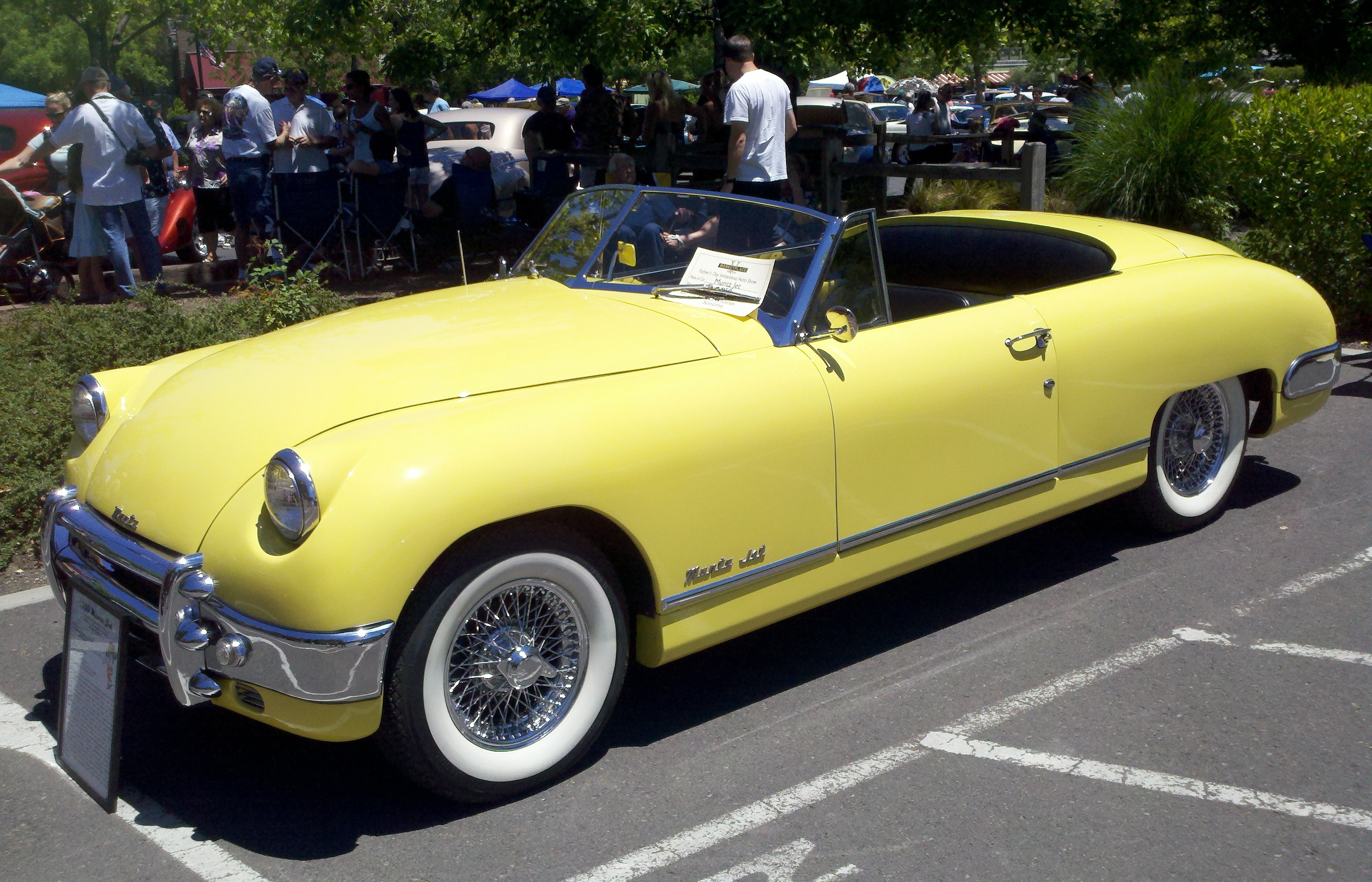 A 1950 Muntz Jet at the 2011 Father's Day Auto Show in Yountville, California